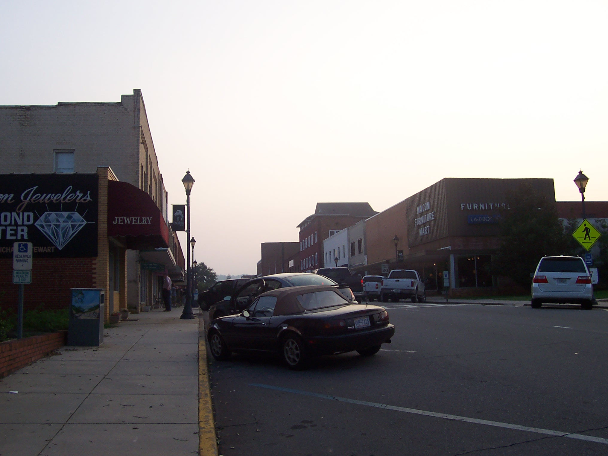 Main Street, Franklin, North Carolina